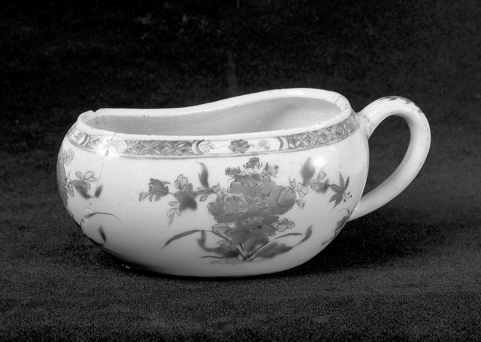 ceramic Wellcome Images Keywords: Museum; urinals; Museums; Gerard de Wind